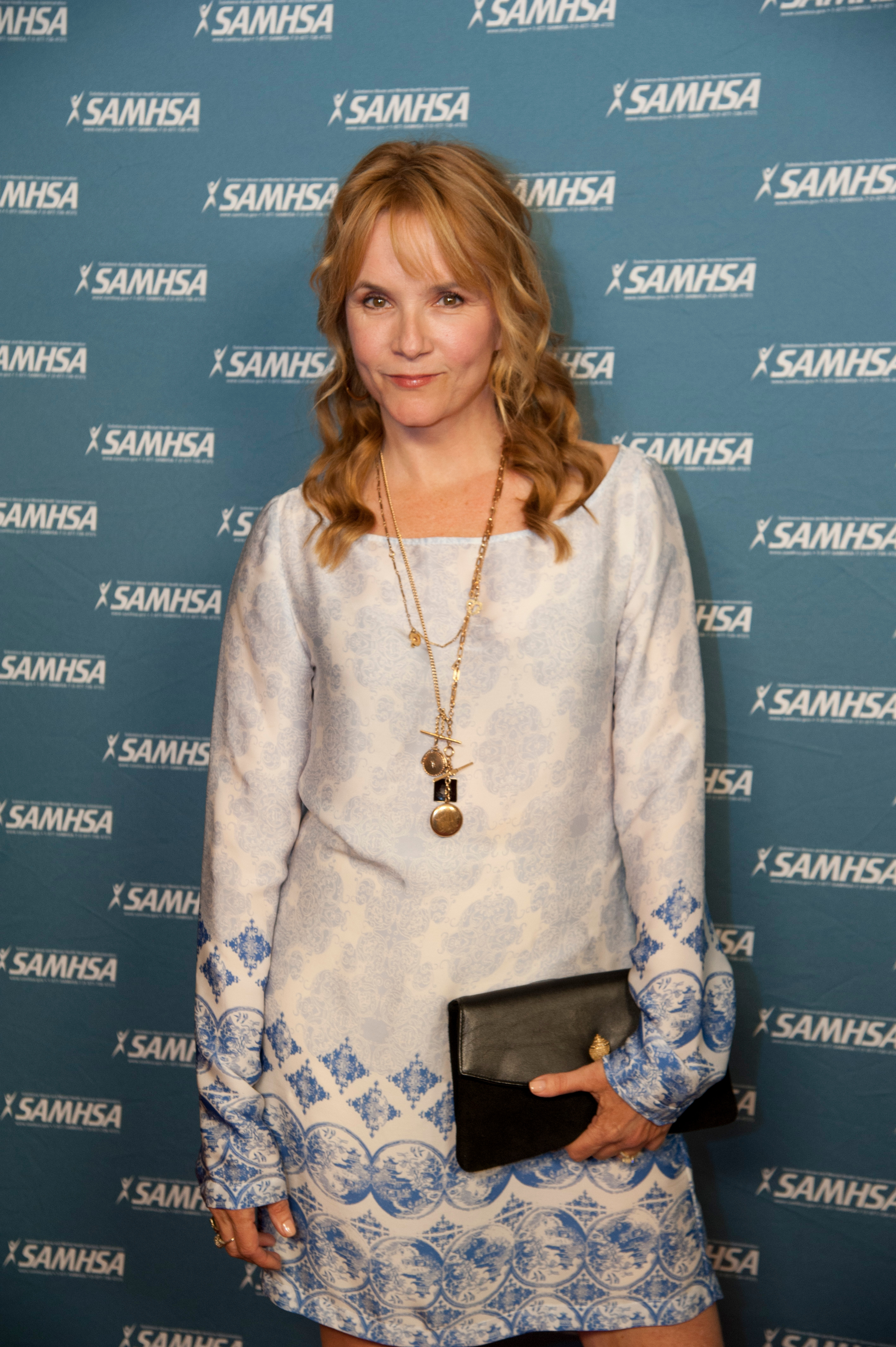 SAMHSA VOICE AWARDS 2013